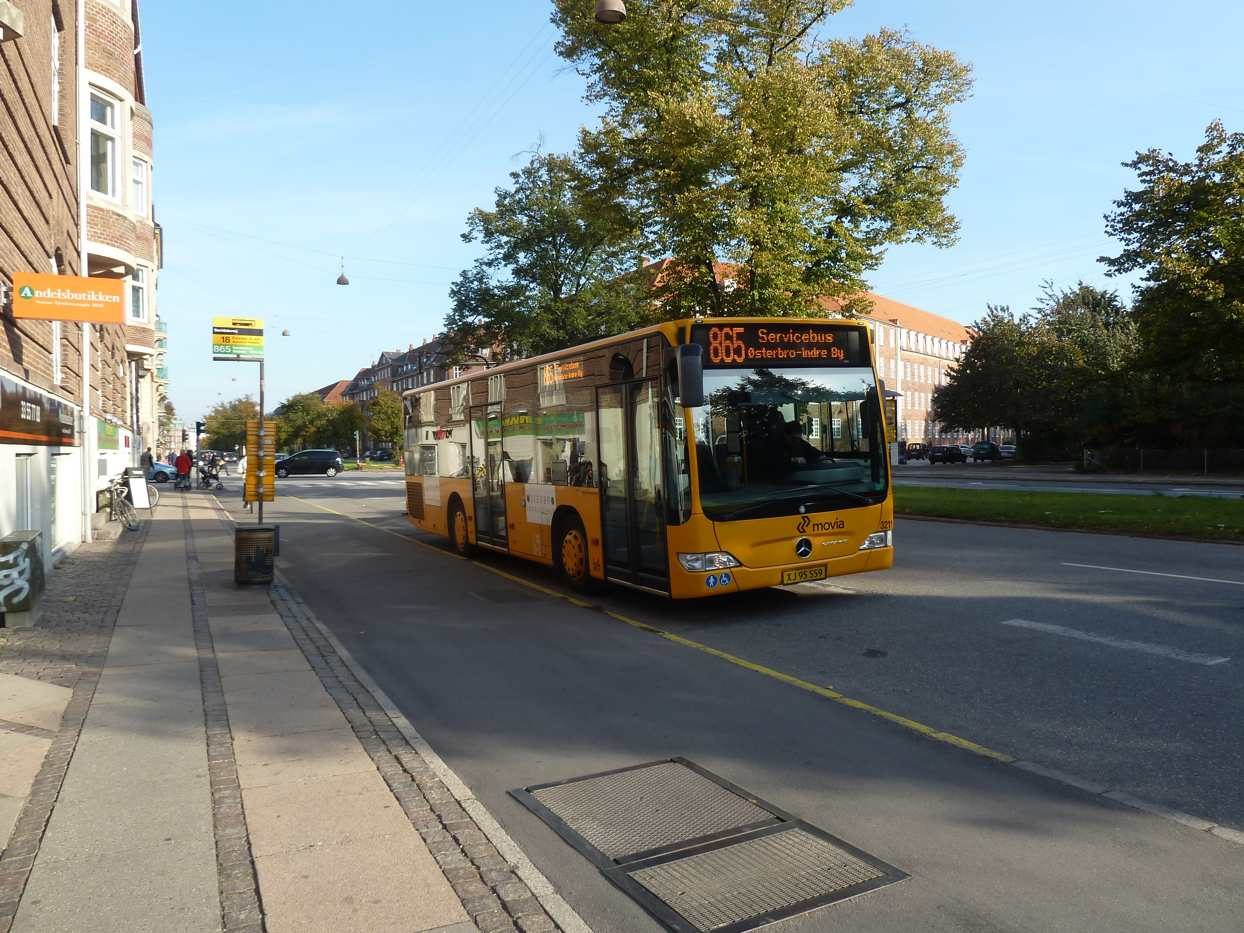 The last on the Copenhagen bus line 865 have just arrived to the endstation on Jagtvej.